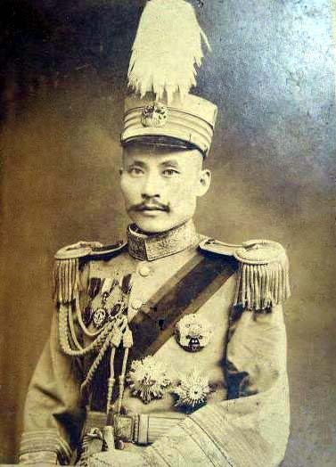 Wang Tianpei